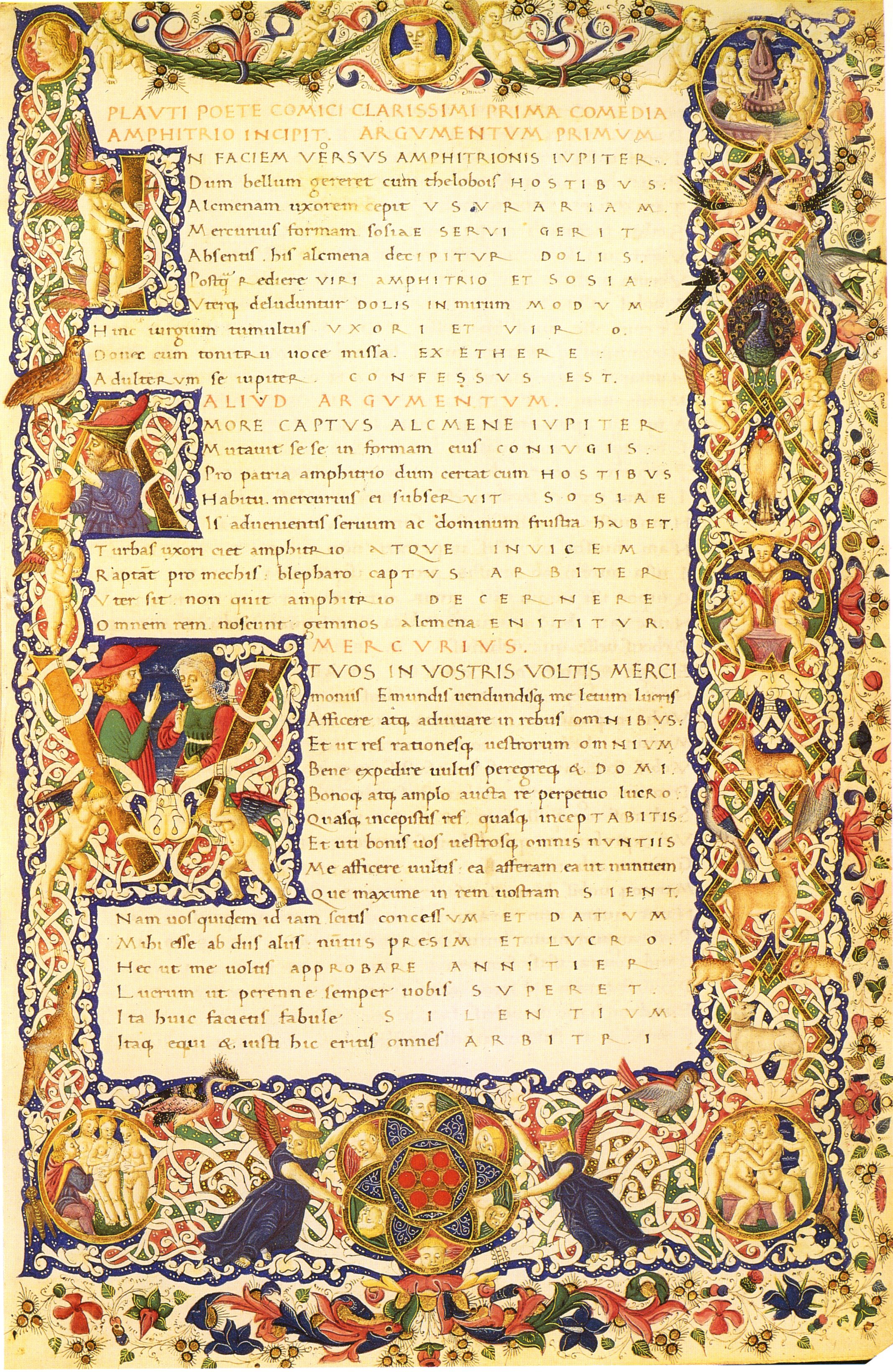 Plautus, Amphitryon in ms. Florence, Biblioteca Medicea Laurenziana, Plut. 36.41, fol. 1r.